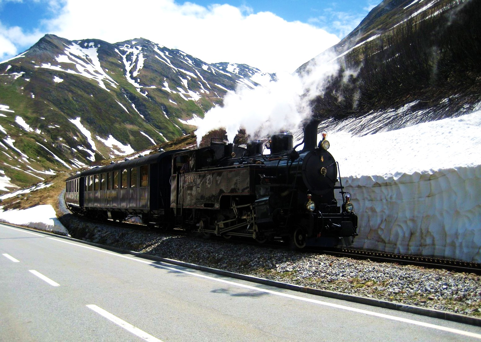 Heritage railway on the Furkapass route